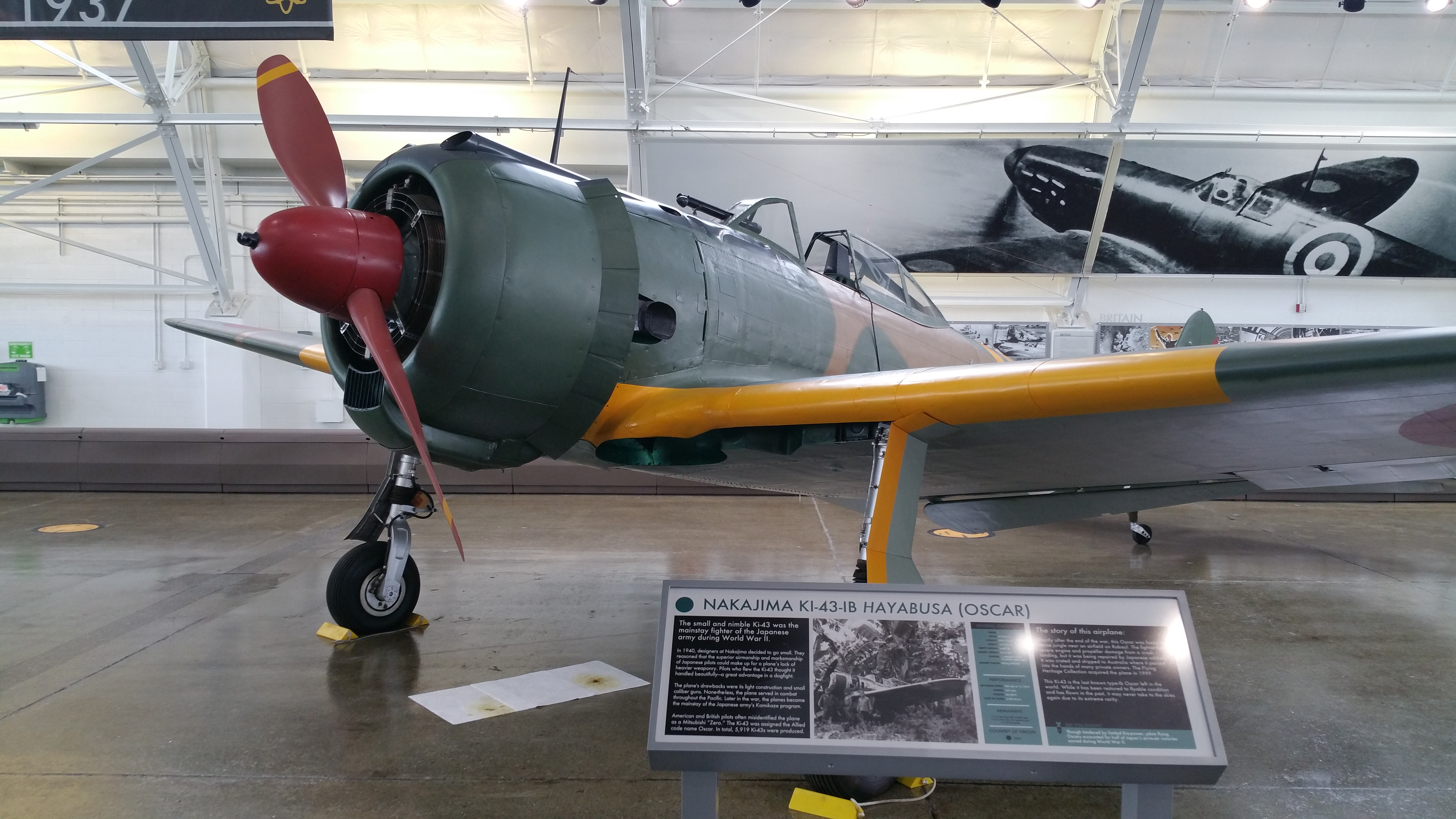 Nakajima Ki-43-IB Oscar at the Flying Heritage Collection